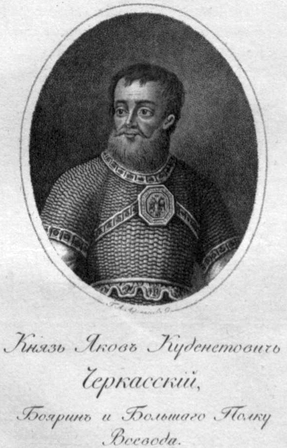 Yakov Cherkasskiy